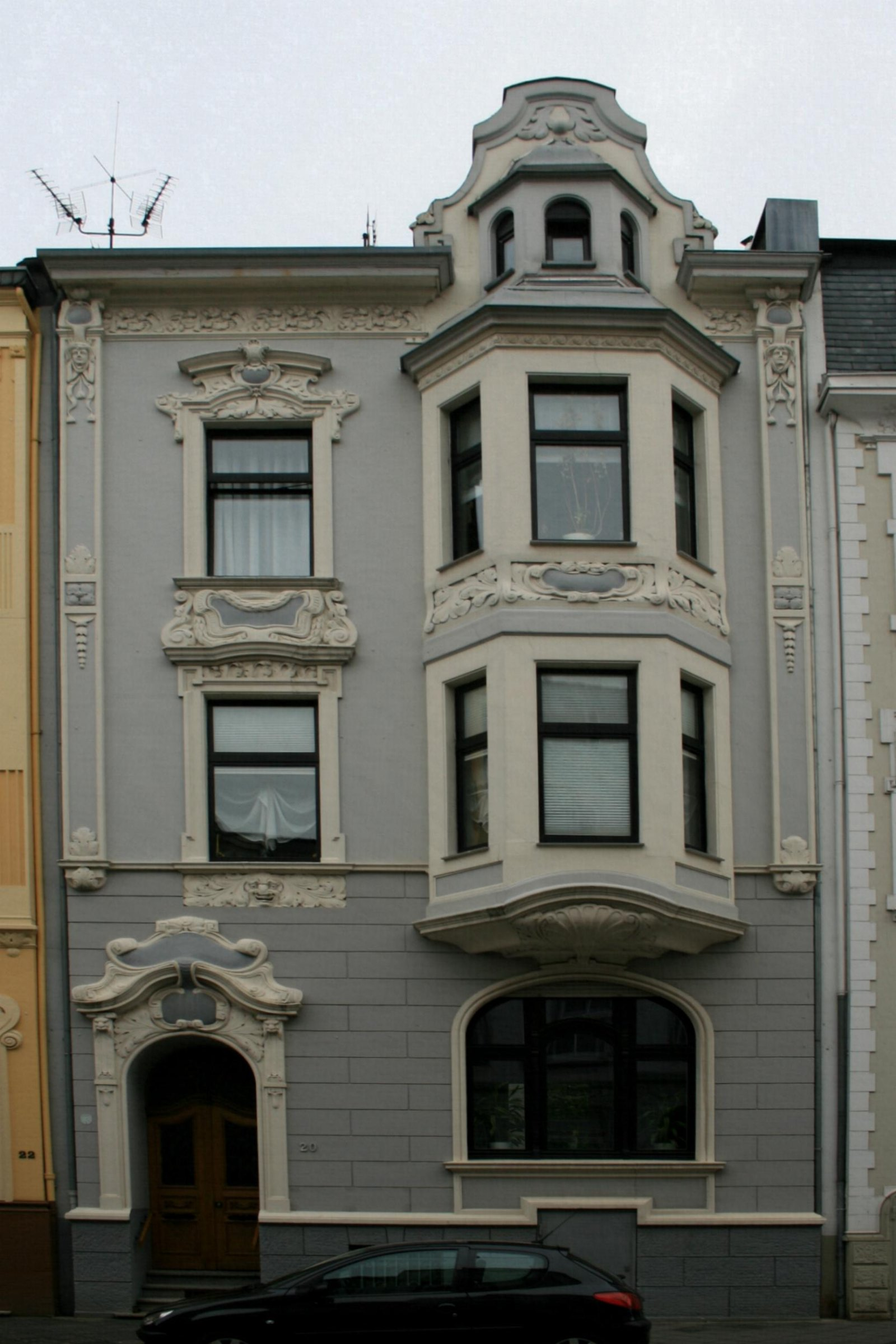 Cultural heritage monument No. St 024 in Mönchengladbach